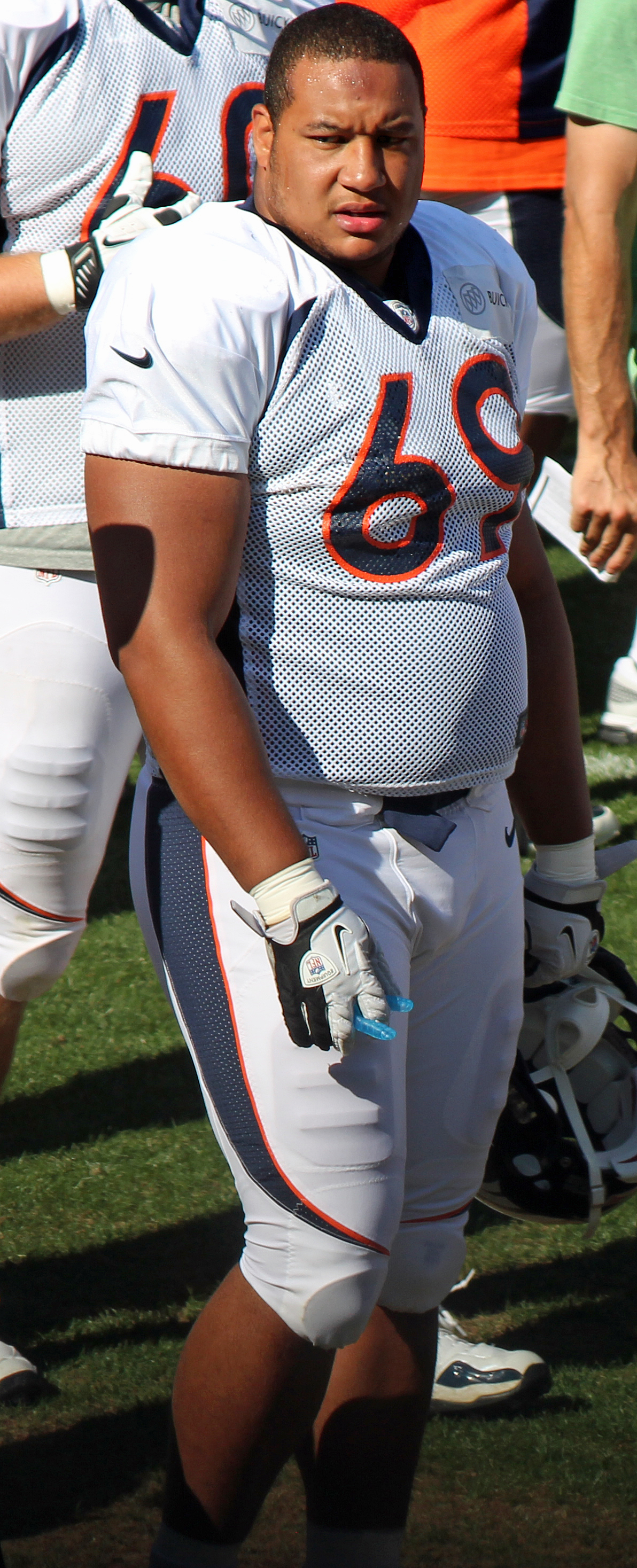 Wayne Tribue, a player on the National Football League.